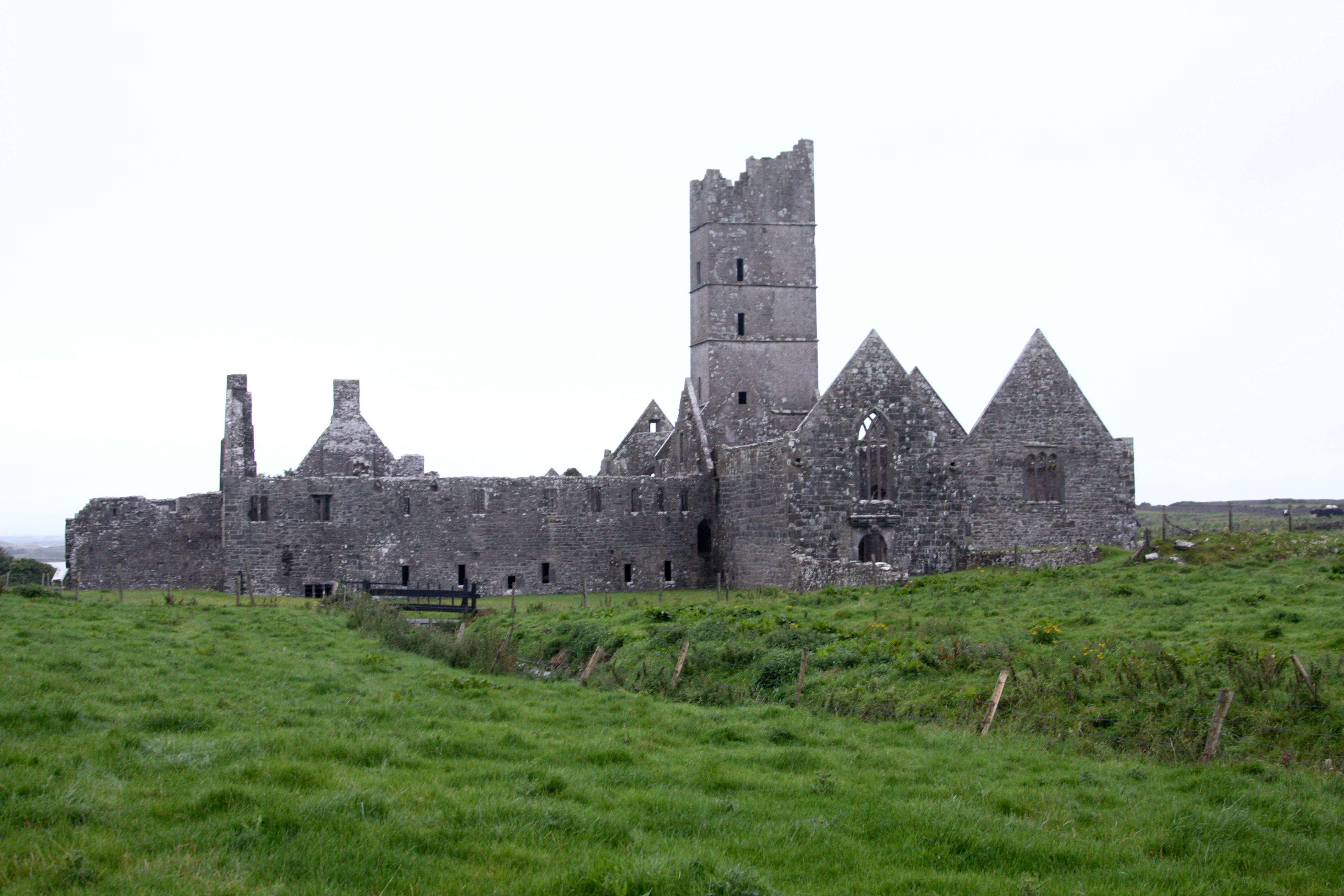 Moyne friary, County Mayo, Republic of Ireland